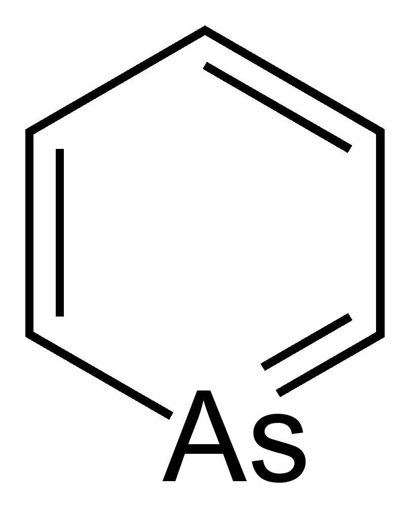 Skeletal formula of arsabenzene, the arsenic analogue of pyridine. Structural details from Dalton Trans. (2008) 92-95. Structure drawn in ChemDraw Ultra 11.0.